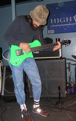 Spencer Seim playing in Hella at the High Five in Columbus, Ohio. Photo taken by Alex Matchneer. All rights released.